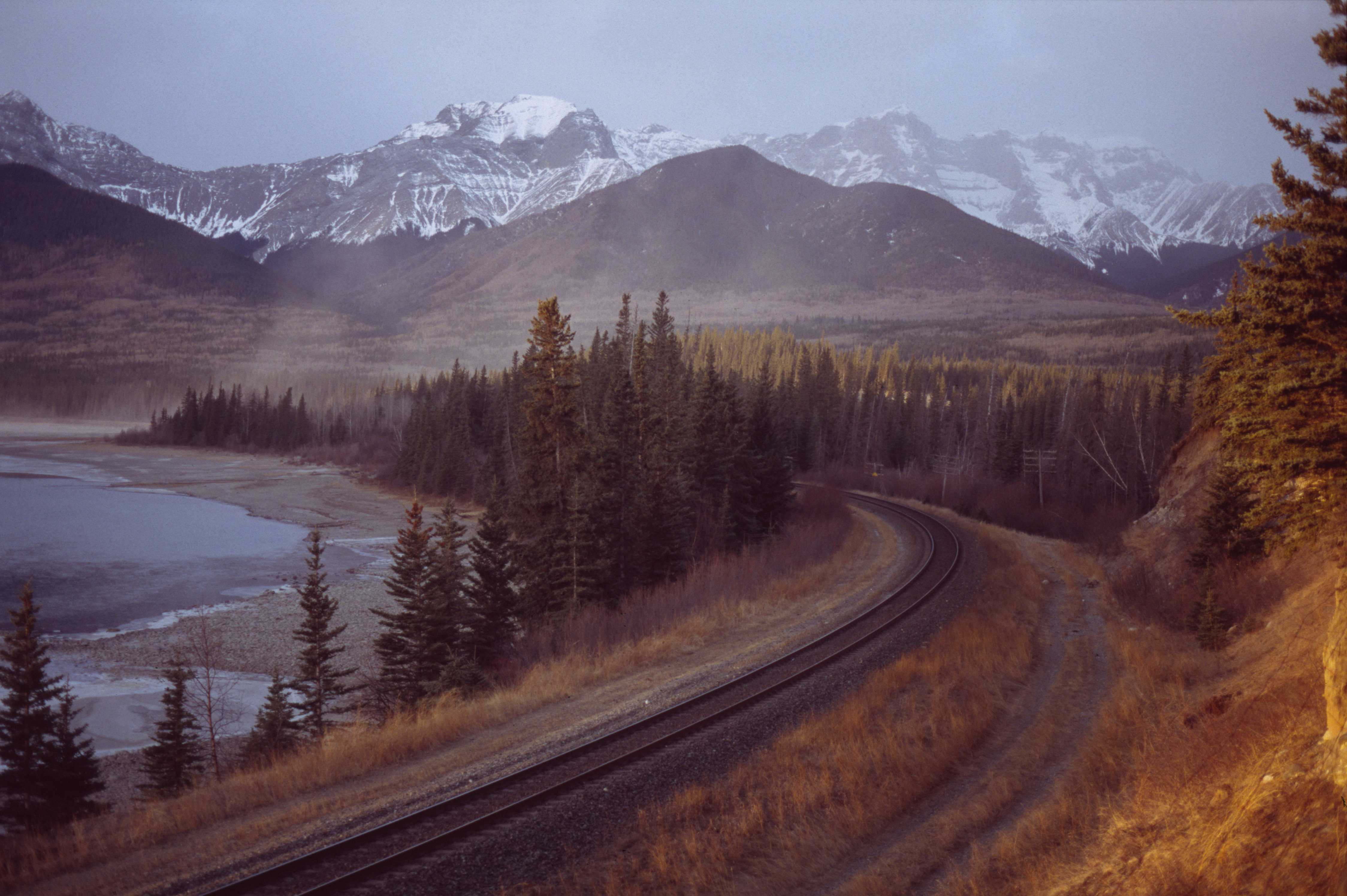 The Athabasca River railroad track at the mouth of Brûlé Lake in Alberta, Canada.